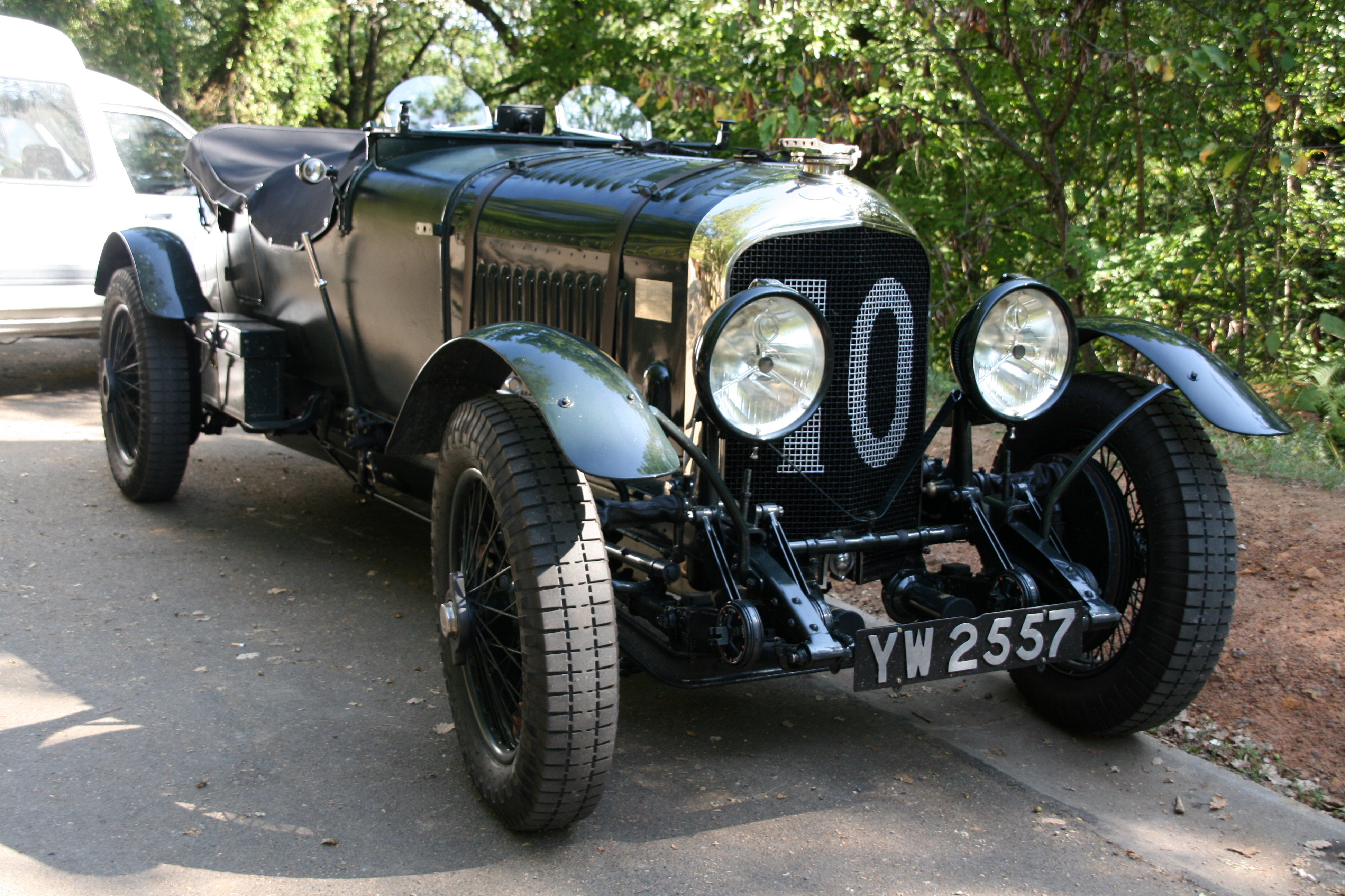 Bentley 4½ Litre n°10. Drived by the pilots Dr. Dudley Benjafield (U.K.) and André d'Erlanger (France), this vehicle finished third in the 1929 24 Hours of Le Mans.Photographed beside of the Rouffignac cave, Rouffignac-Saint-Cernin-de-Reilhac, Dordogne, France. English registration plates.